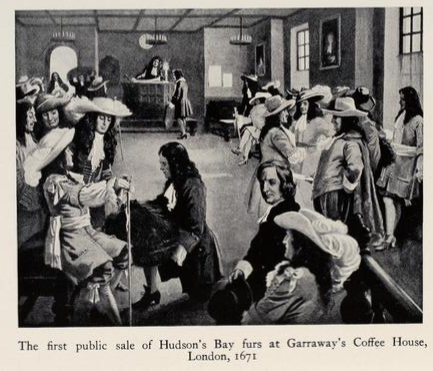 In 1671 the Hudson's Bay Company sold its first furs, in London